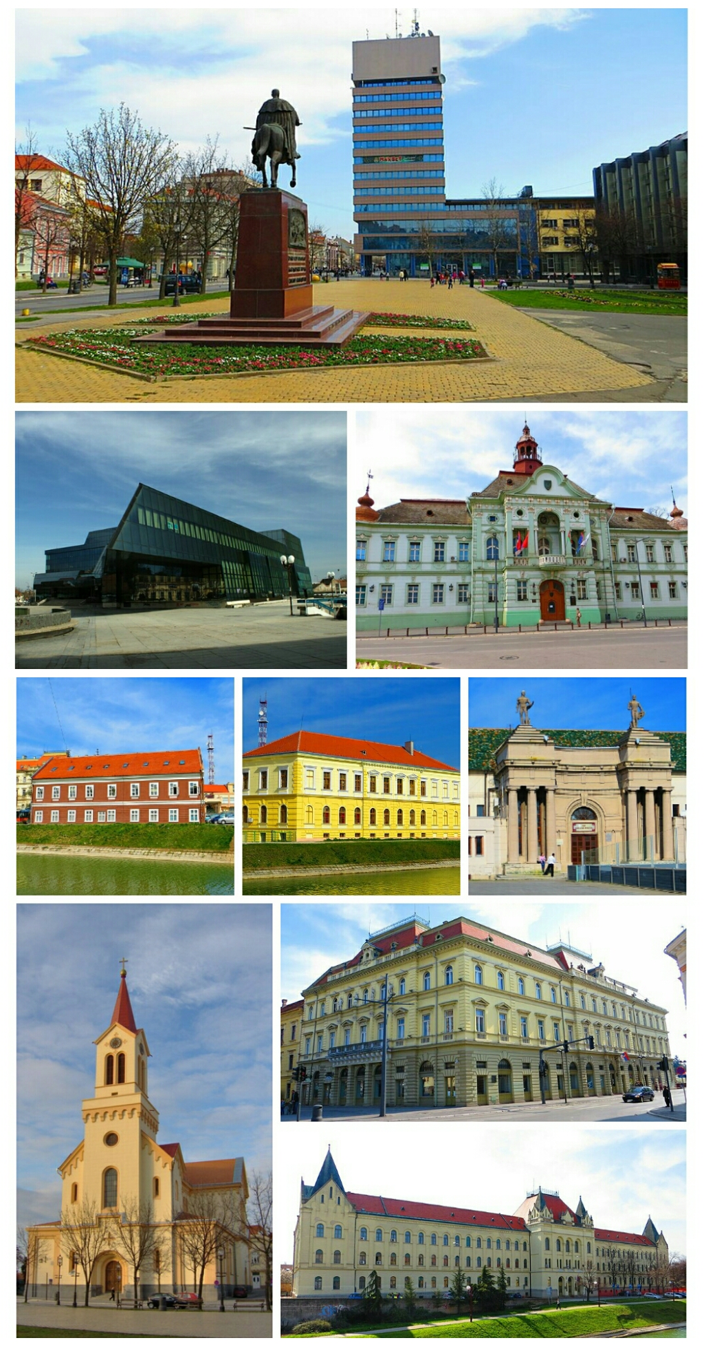 Zrenjanin- collage of image (Freedom Square, The building of Vojvodina Bank on the Republic Square in Zrenjanin, Zrenjanin City Hall, Music school ,,Josif Marinkovic", Primary school ,,Vuk Karadzic", House of martial arts in Zrenjanin, Cathedral of St. John of Nepomuk in Zrenjanin, National Museum, Zrenjanin Court House)